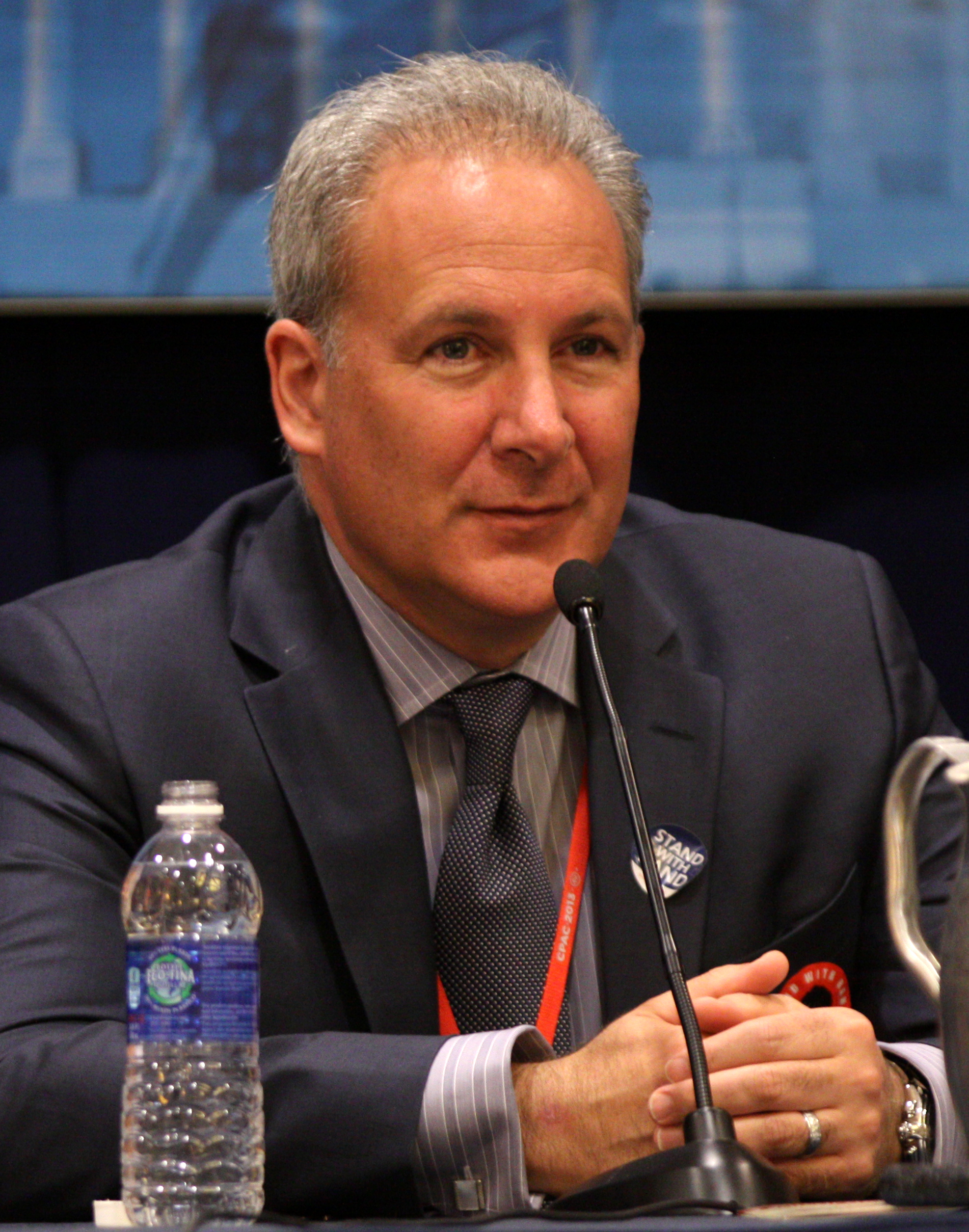 Peter Schiff speaking at the 2013 CPAC in Washington D.C. on March 15, 2013.